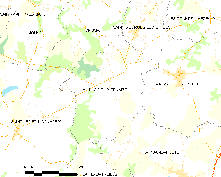 Map of French municipality Mailhac-sur-Benaize